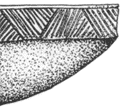 portion of an Unstan ware bowl